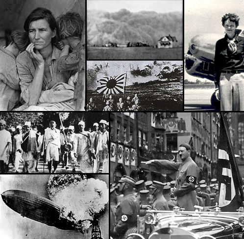 A montage of notable events in the 1930s.